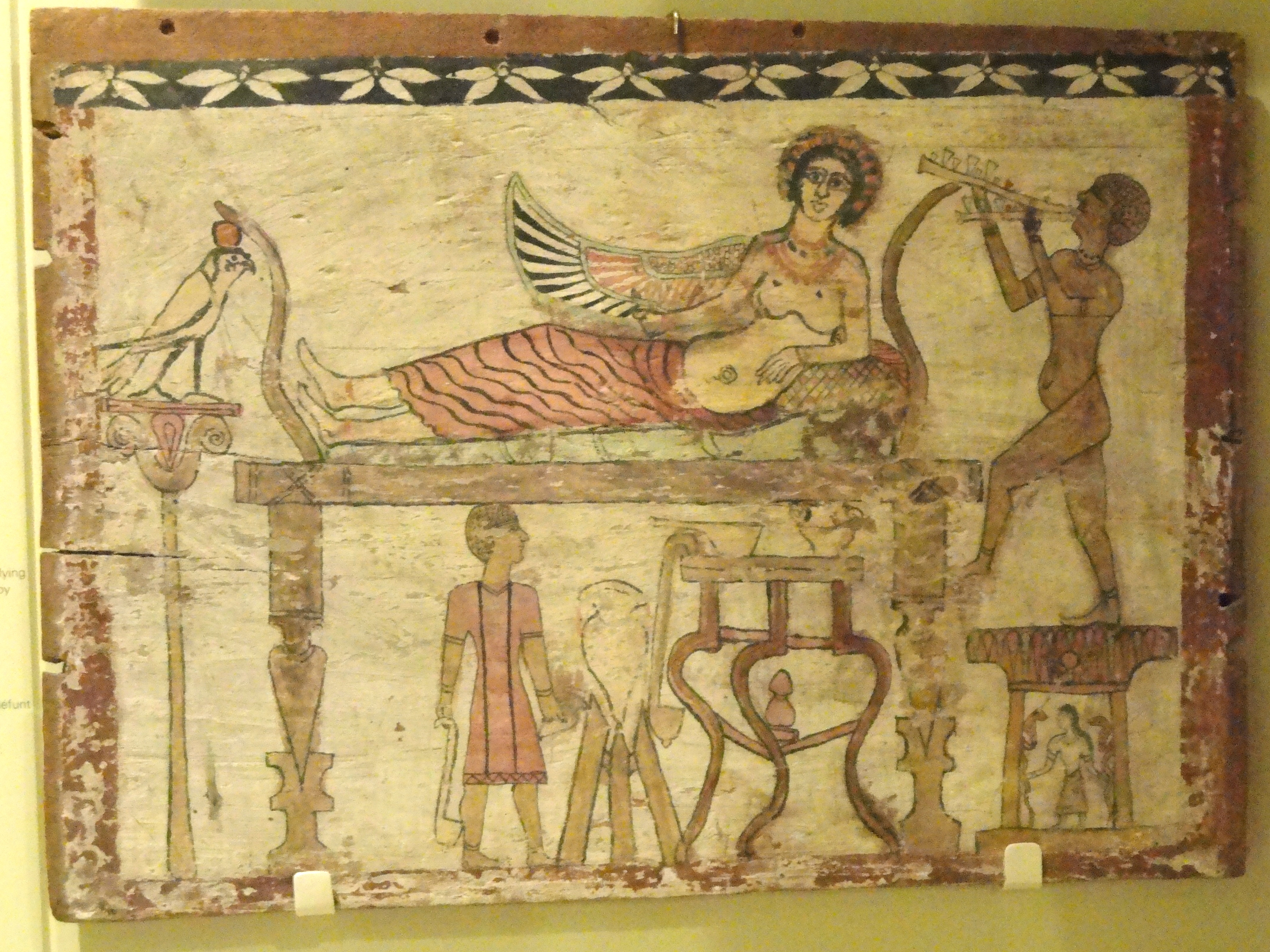 Exhibit in the Royal Ontario Museum, Toronto, Ontario, Canada. This exhibit is old enough so that it is in the public domain, and photography was permitted in the museum. I took this photograph and release it into the public domain.